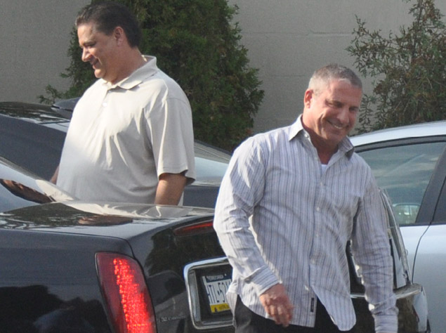 Acting Bonanno crime family boss Vincent Badalamenti (left) and reputed Bonanno soldier Vito Balsamo in long-sleeved dress shirt on right.